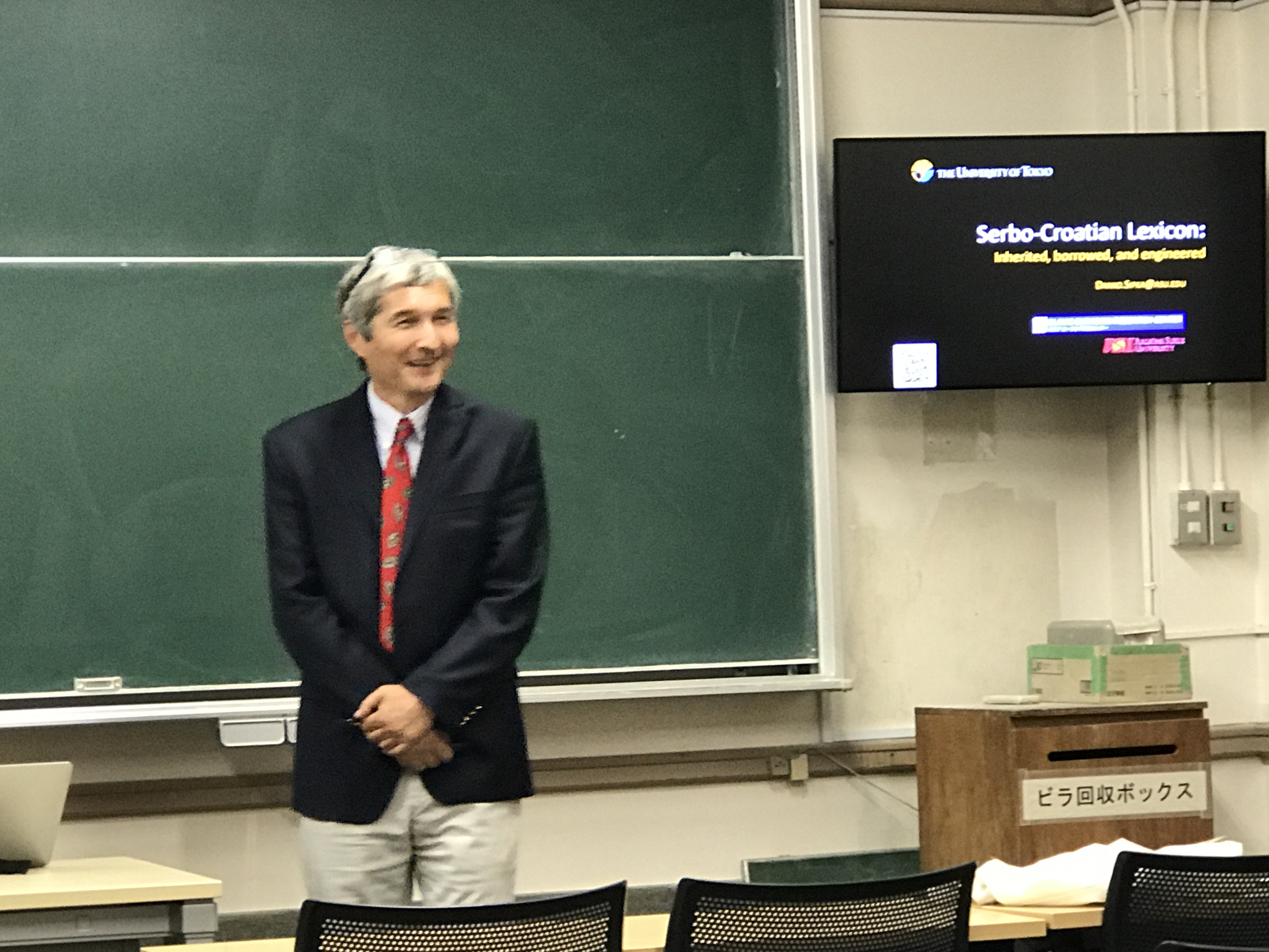 Danko Sipka